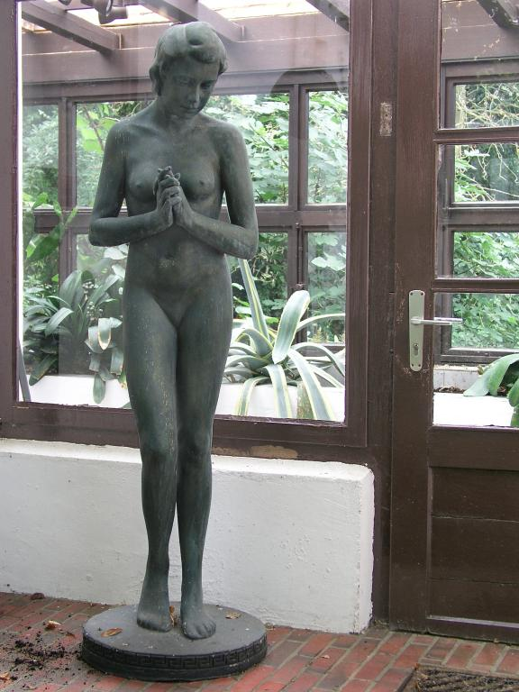 Bremerhaven, Germany: Thiele's garden, statue of a nude woman, photo taken in 2007